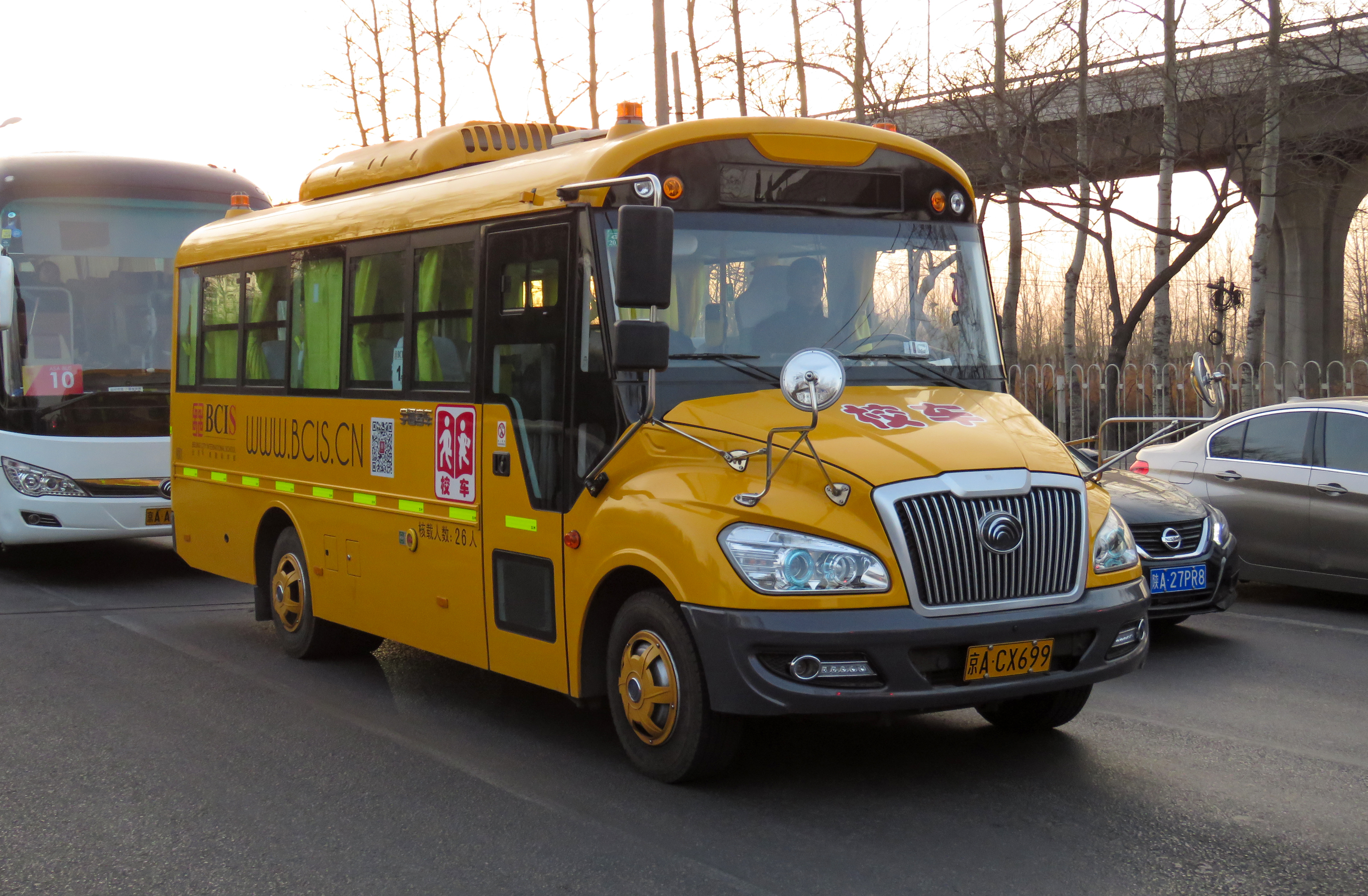 A front-engined (with vacant seats?) school bus of Beijing City International School.